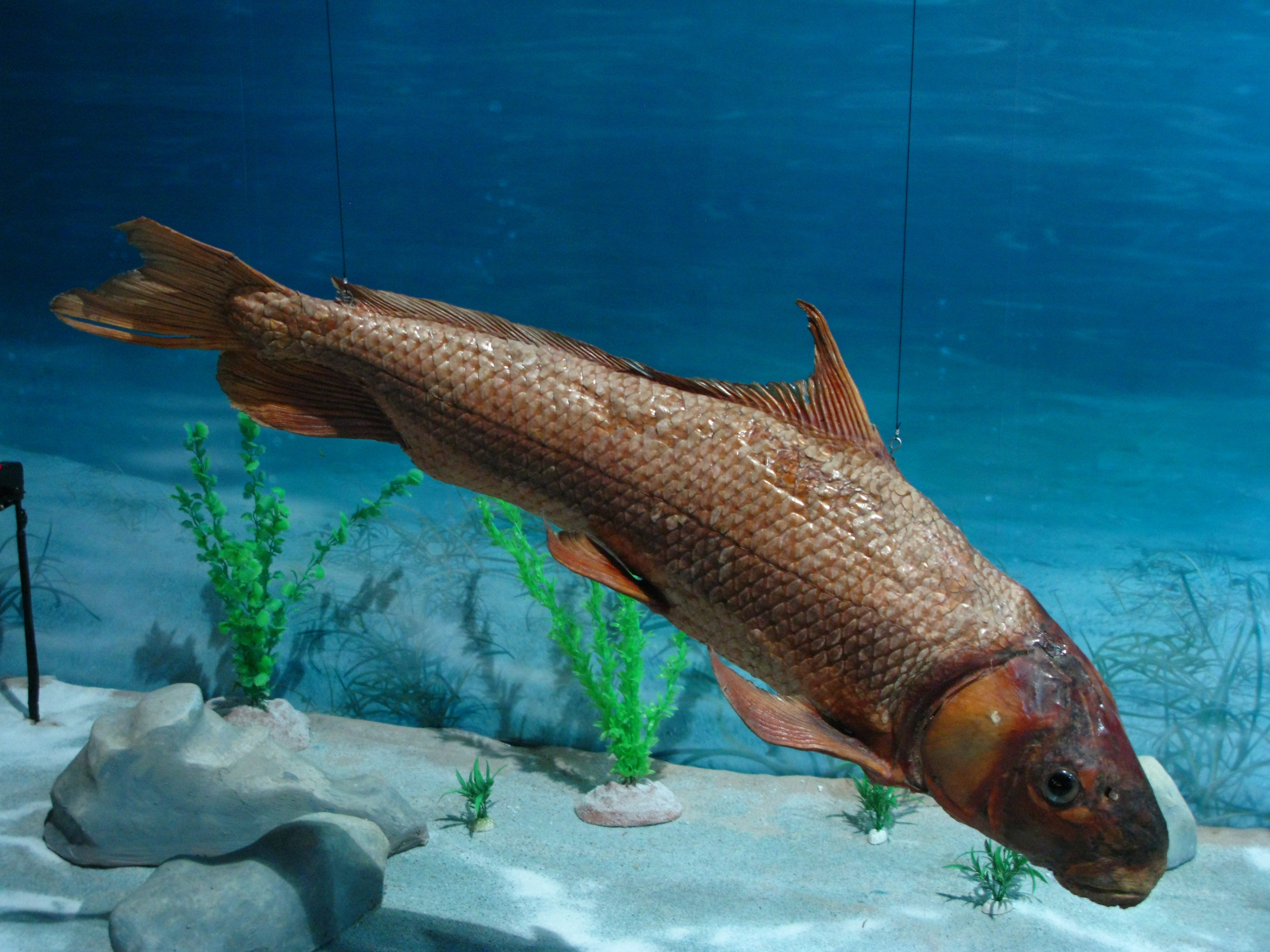 A Chinese high fin banded shark speciemen.